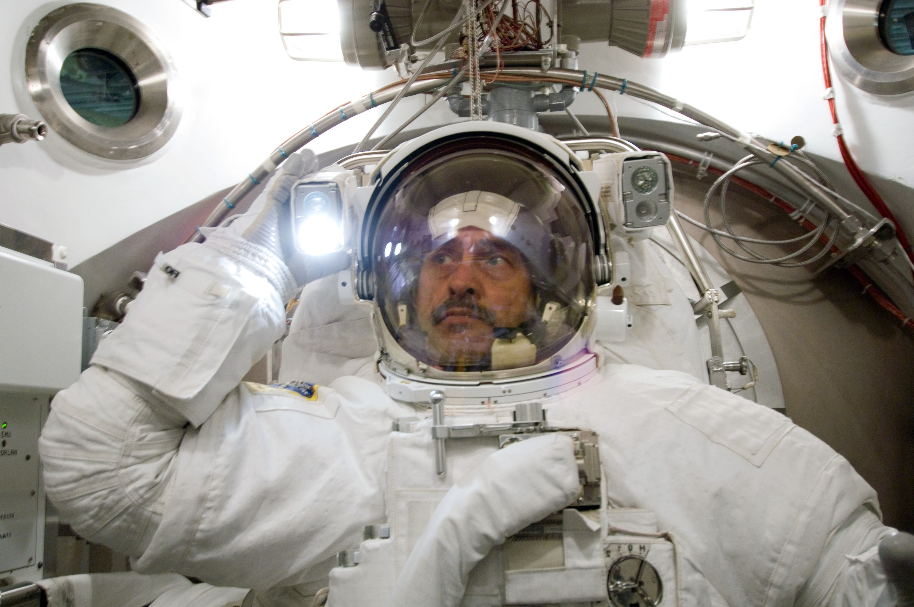 Cosmonaut Pavel V. Vinogradov, Expedition 13 commander representing the Russian Federal Space Agency, participates in an Extravehicular Mobility Unit (EMU) spacesuit fit check in the Space Station Airlock Test Article (SSATA) in the Crew Systems Laboratory at the Johnson Space Center.